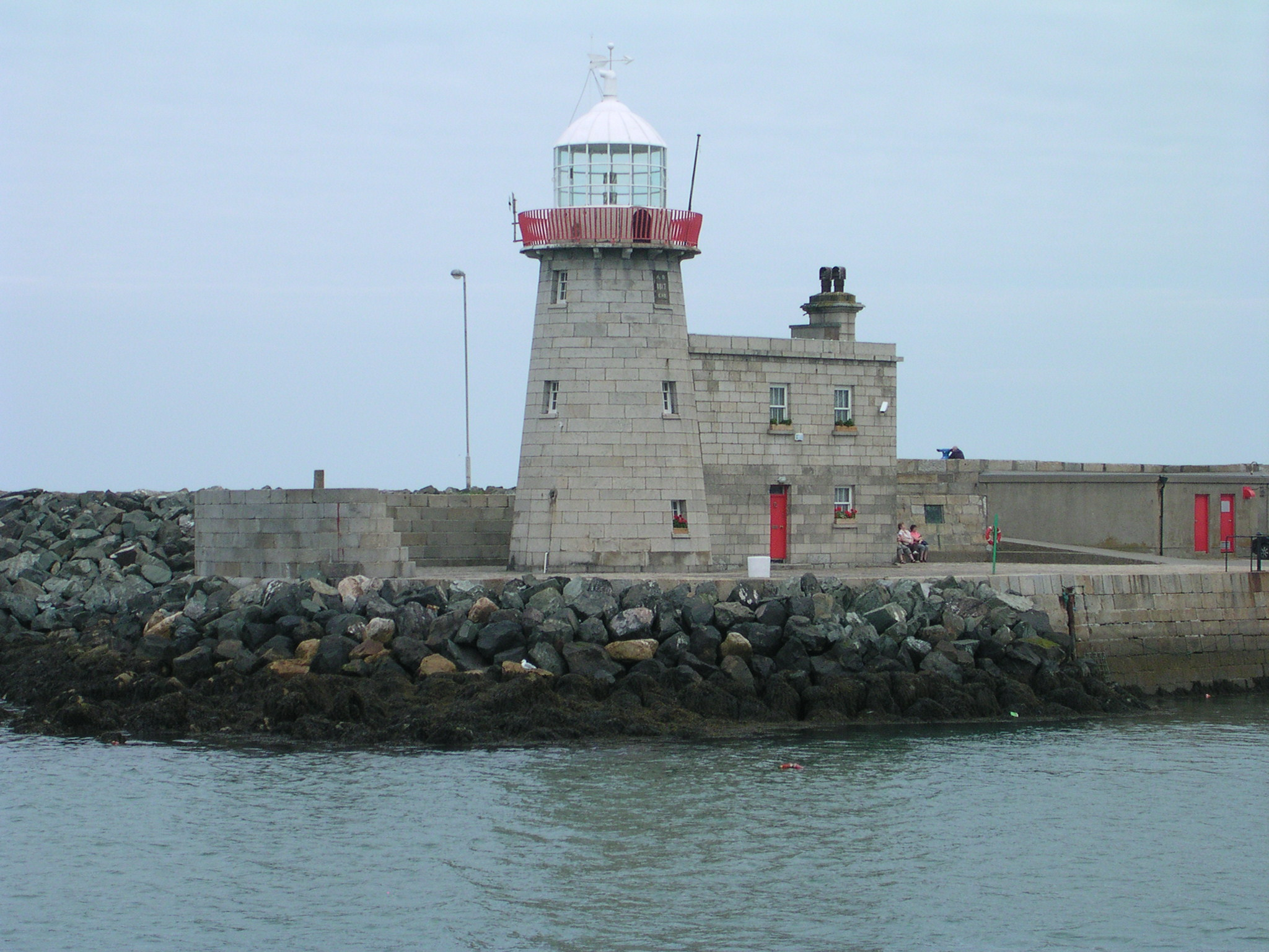 LightHouse in Howth